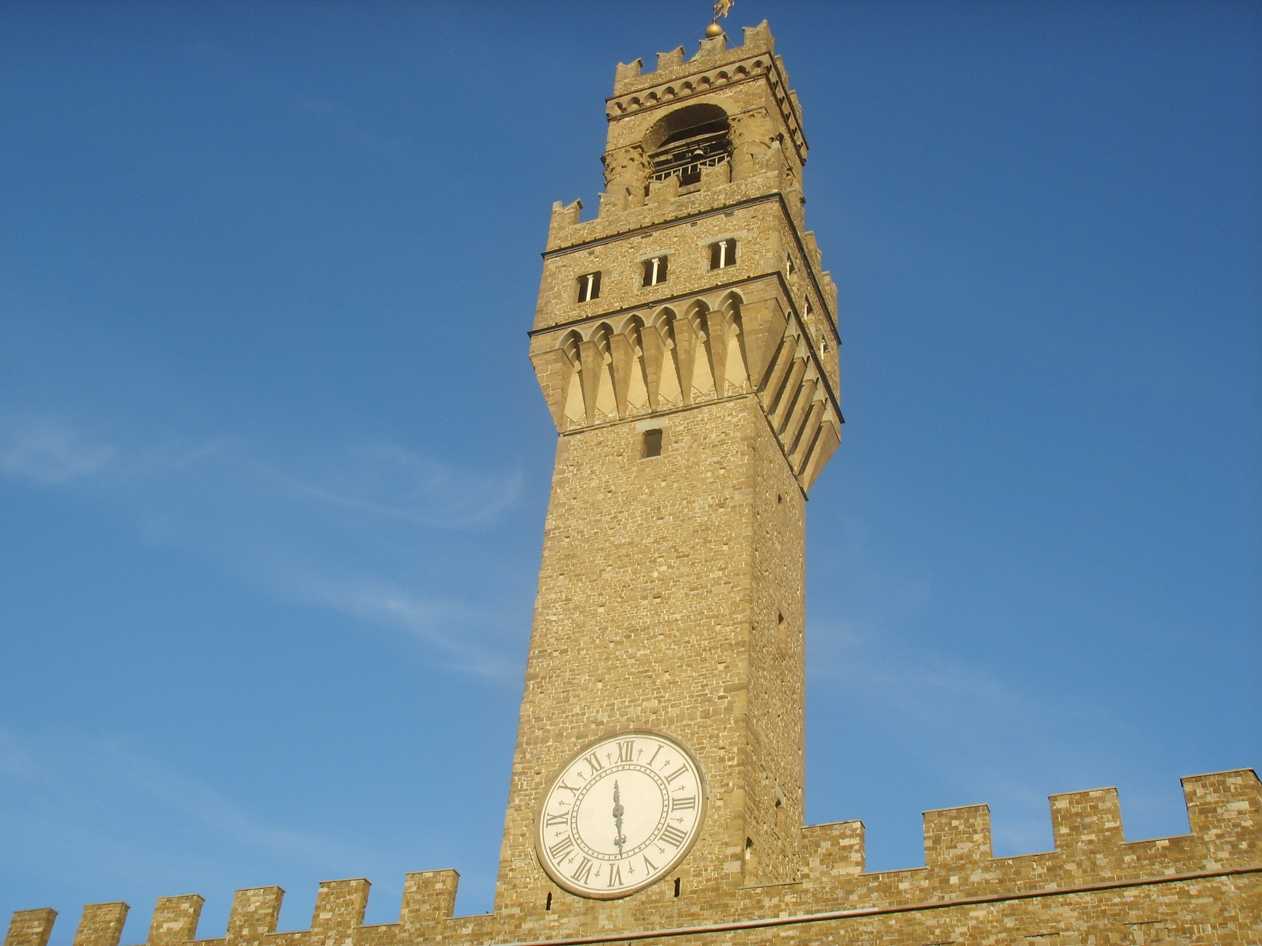 Tower of the Palazzo Vecchio in Florence, Italy.